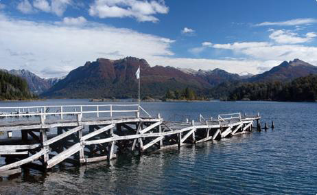 The Puerto Anchonera's pier, in the center of the Victorian Island, Lago Nahuel Huapi, Argentina.